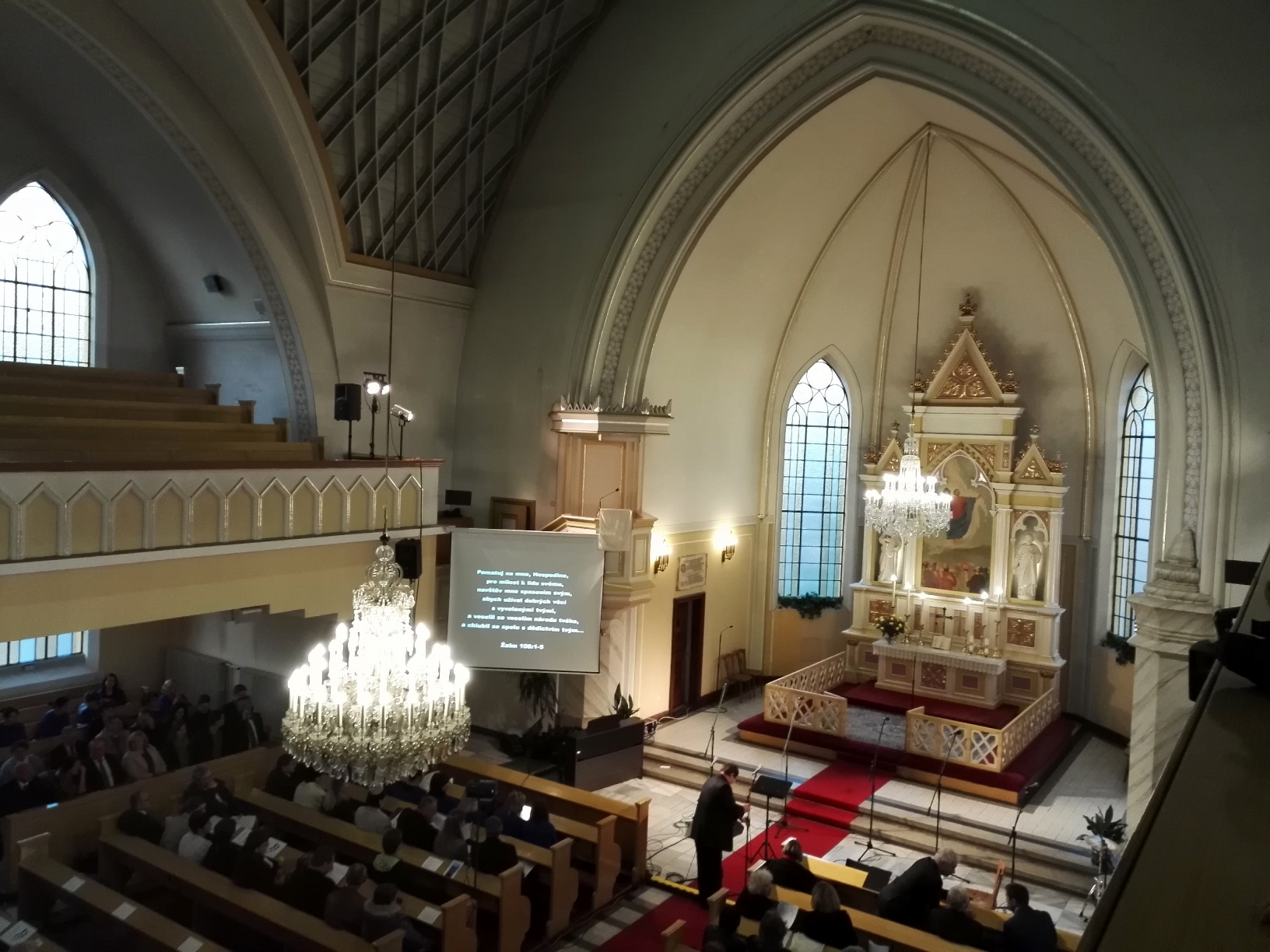 Interior of the Lutheran church in Český Těšín (Na Nivách street)